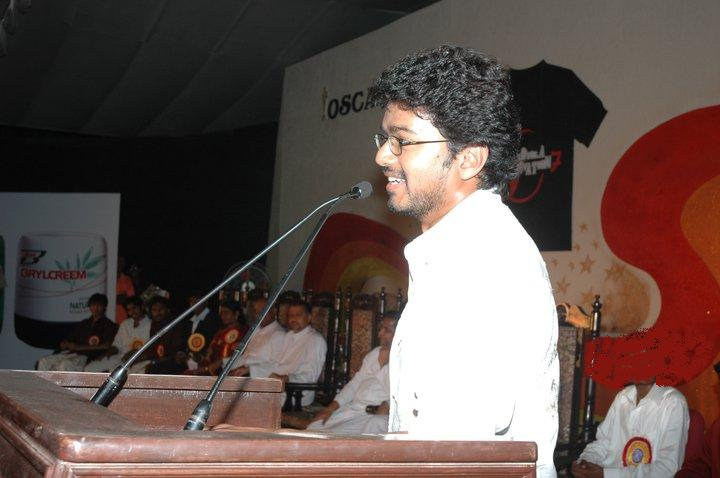 Actor Vijay at a function in 2007